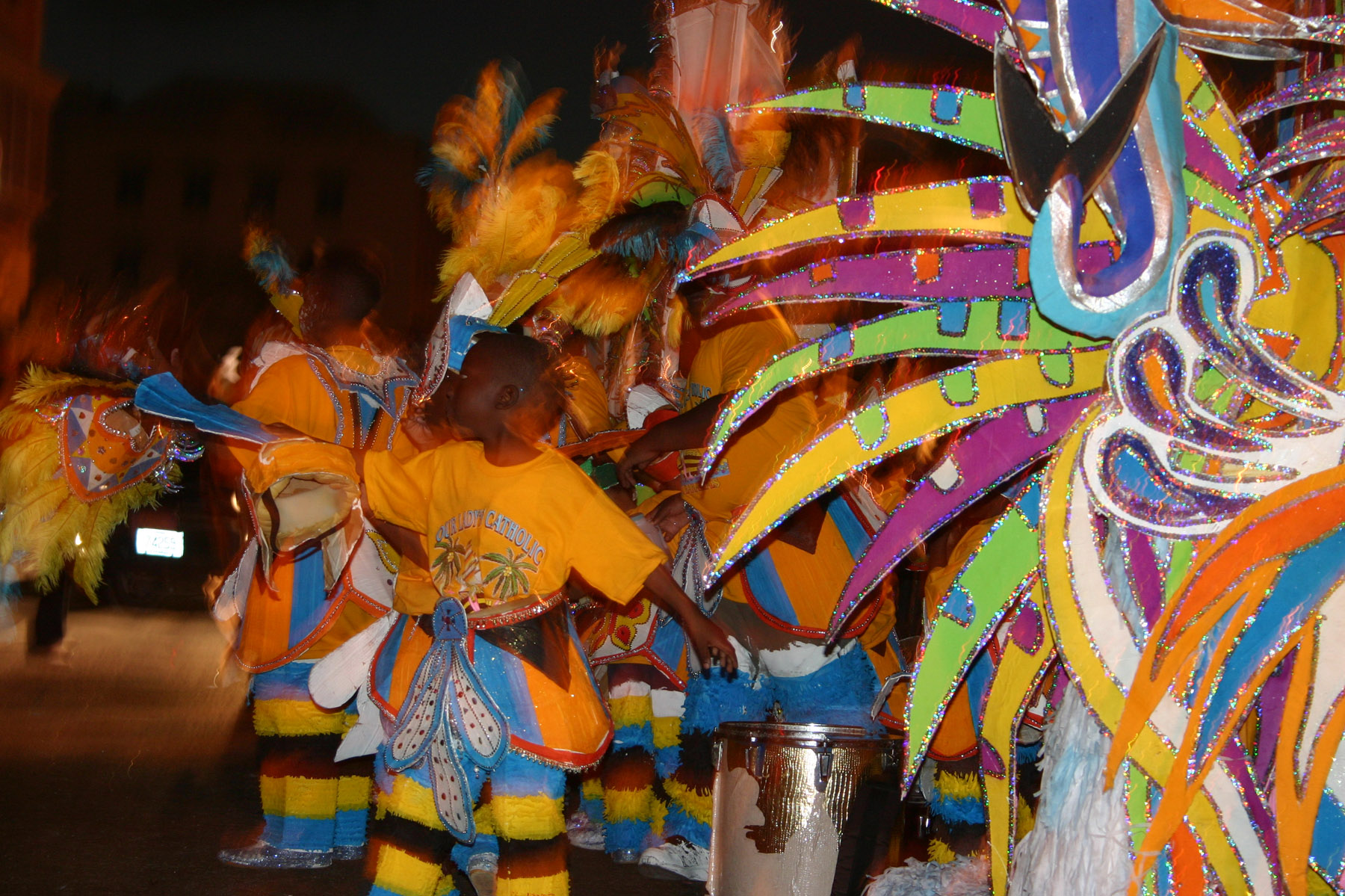 We lucked out and happened to be in Nassau on the same day they were holding the children's parade, part of the annual Junkanoo cultural festival.